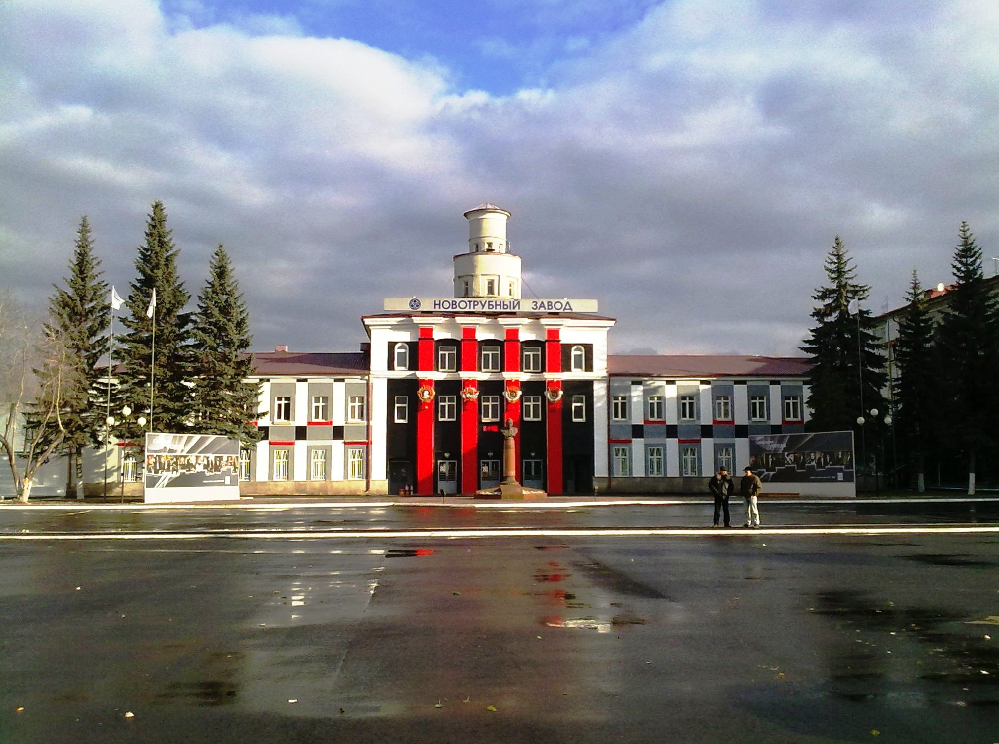 Central entrance into Pervouralsky Novotrubny Works